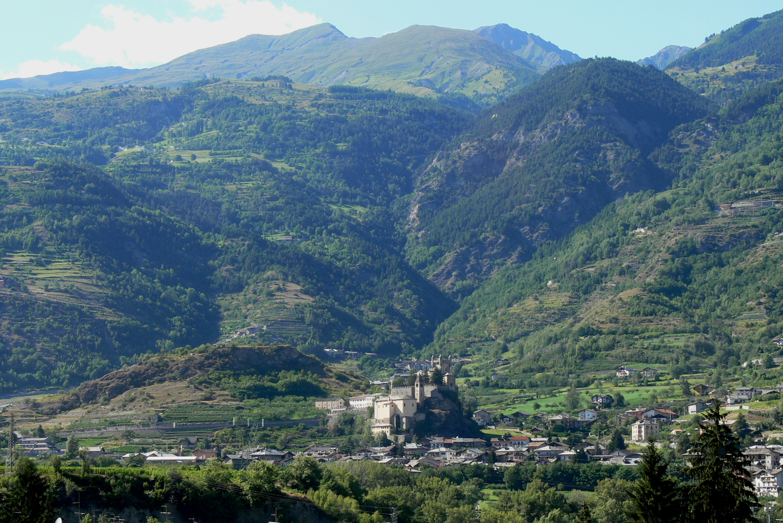 Saint-Pierre ( Aosta Valley ).